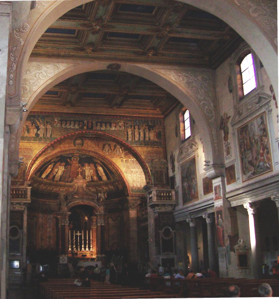 Church of Santa Prassede, Rome. Inside.